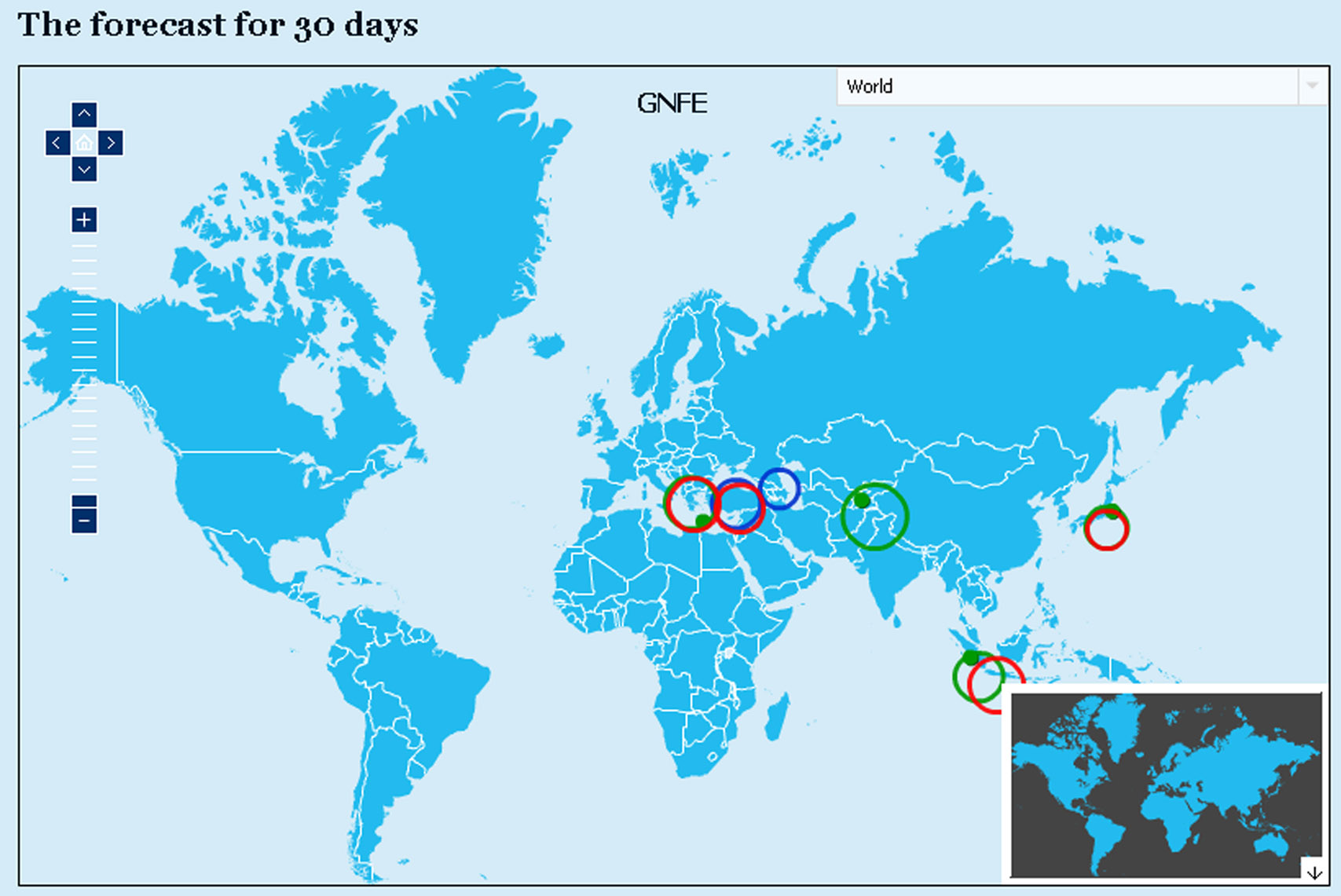 Map of The Global Network for the Forecasting of Earthquakes